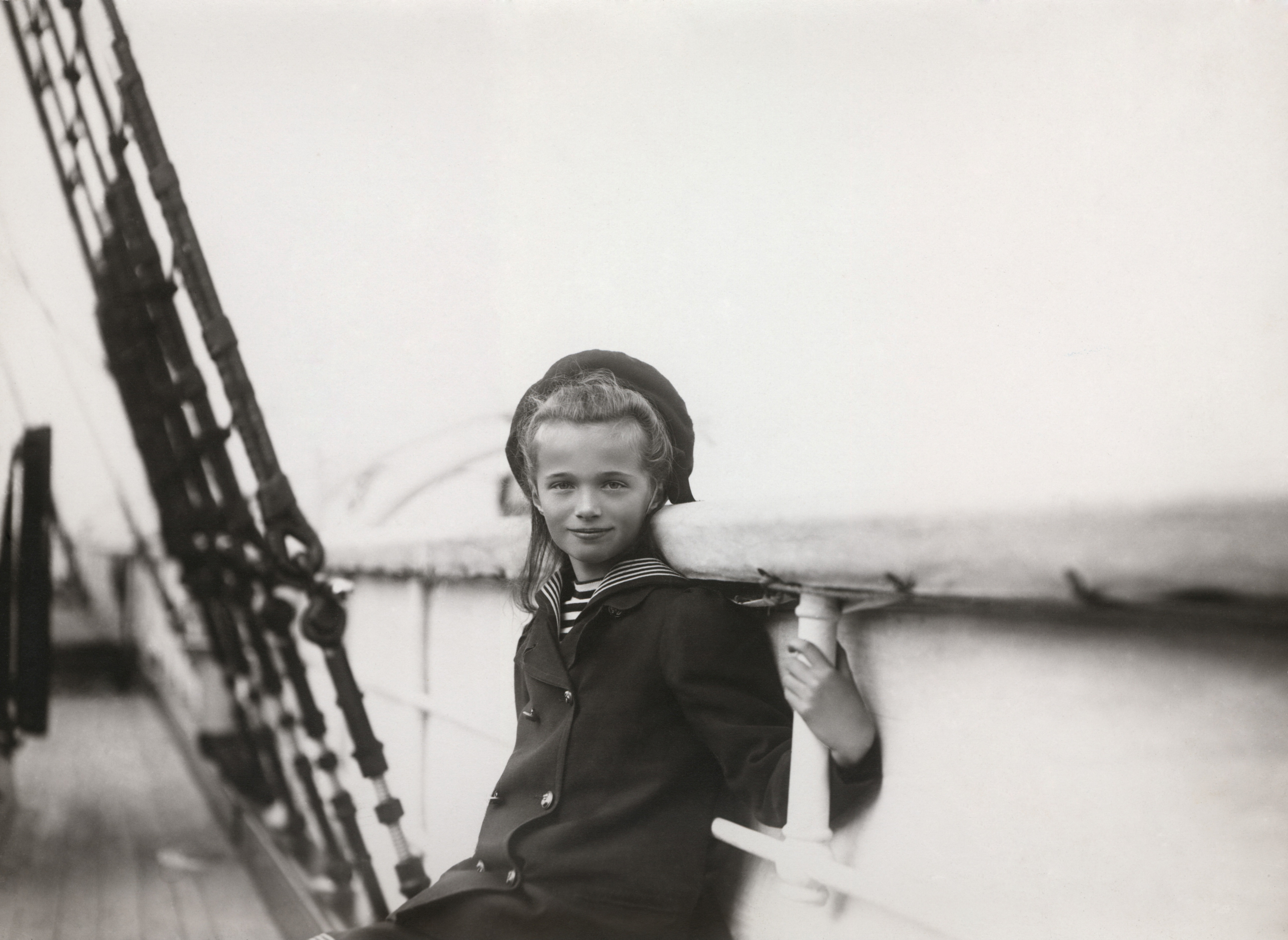 Grand Duchess Olga Nikolaevna of Russia aboard the Imperial yacht Polar Star.